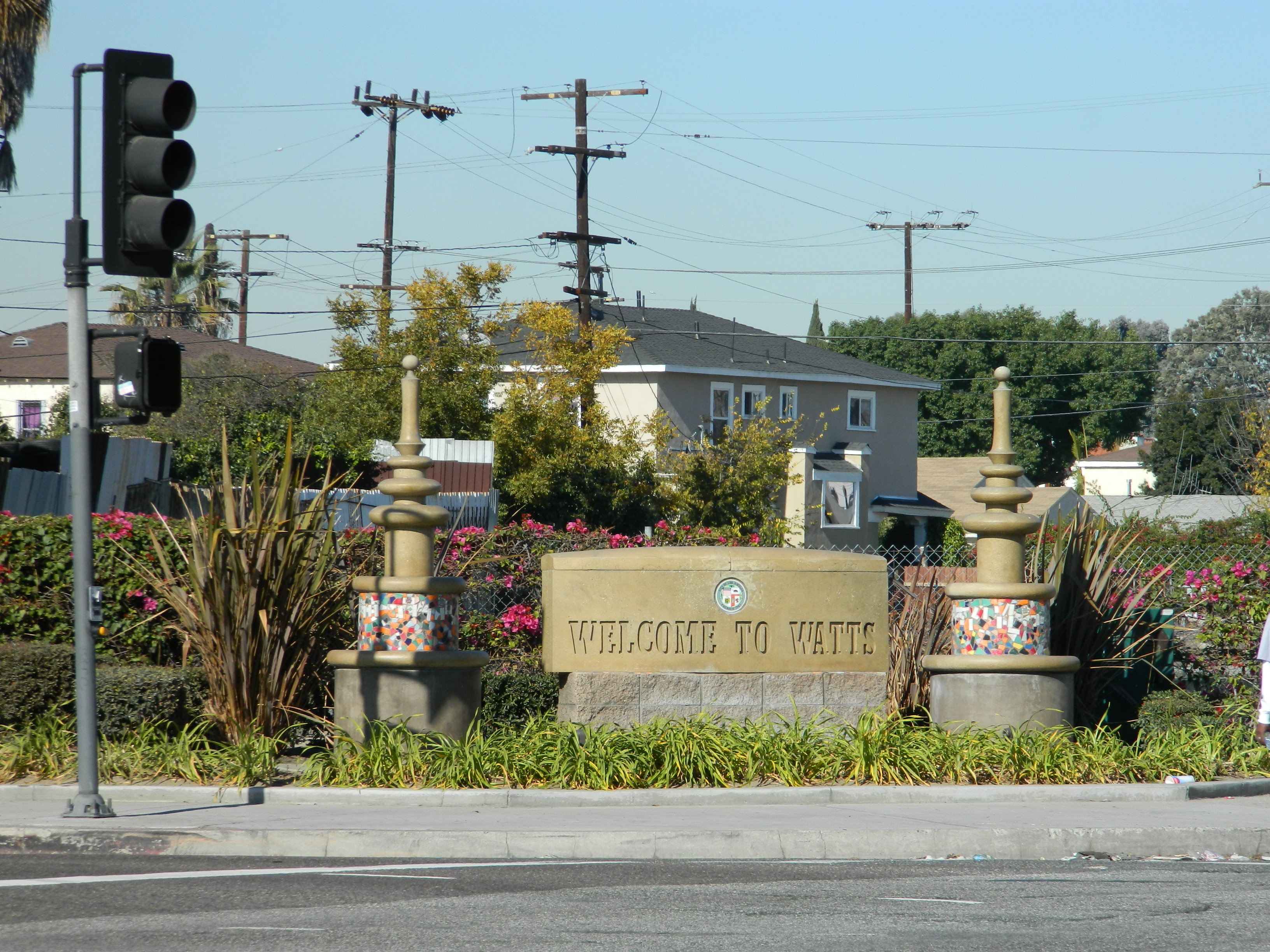 Sign welcoming visitors to Watts California